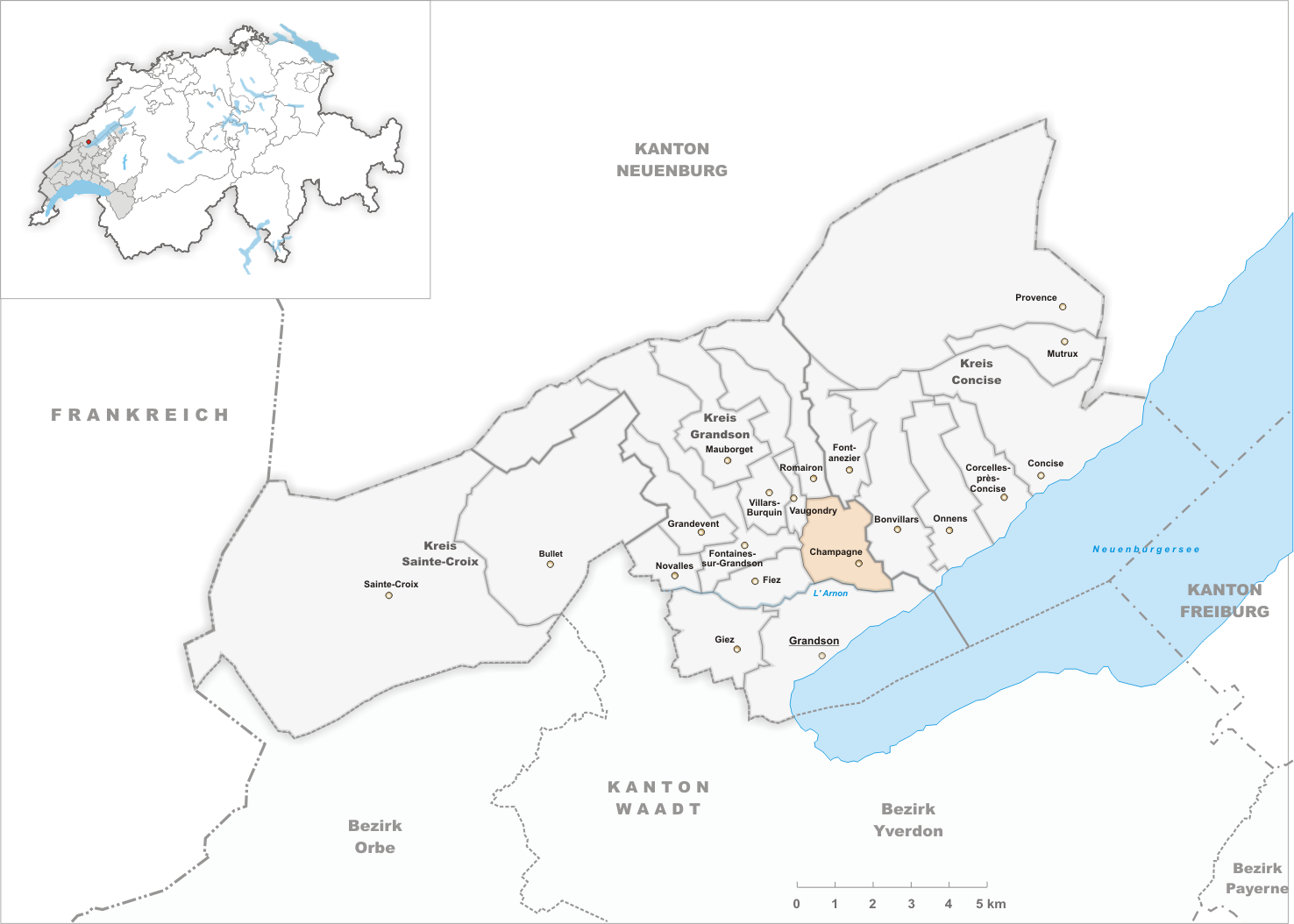 Municipality Champagne